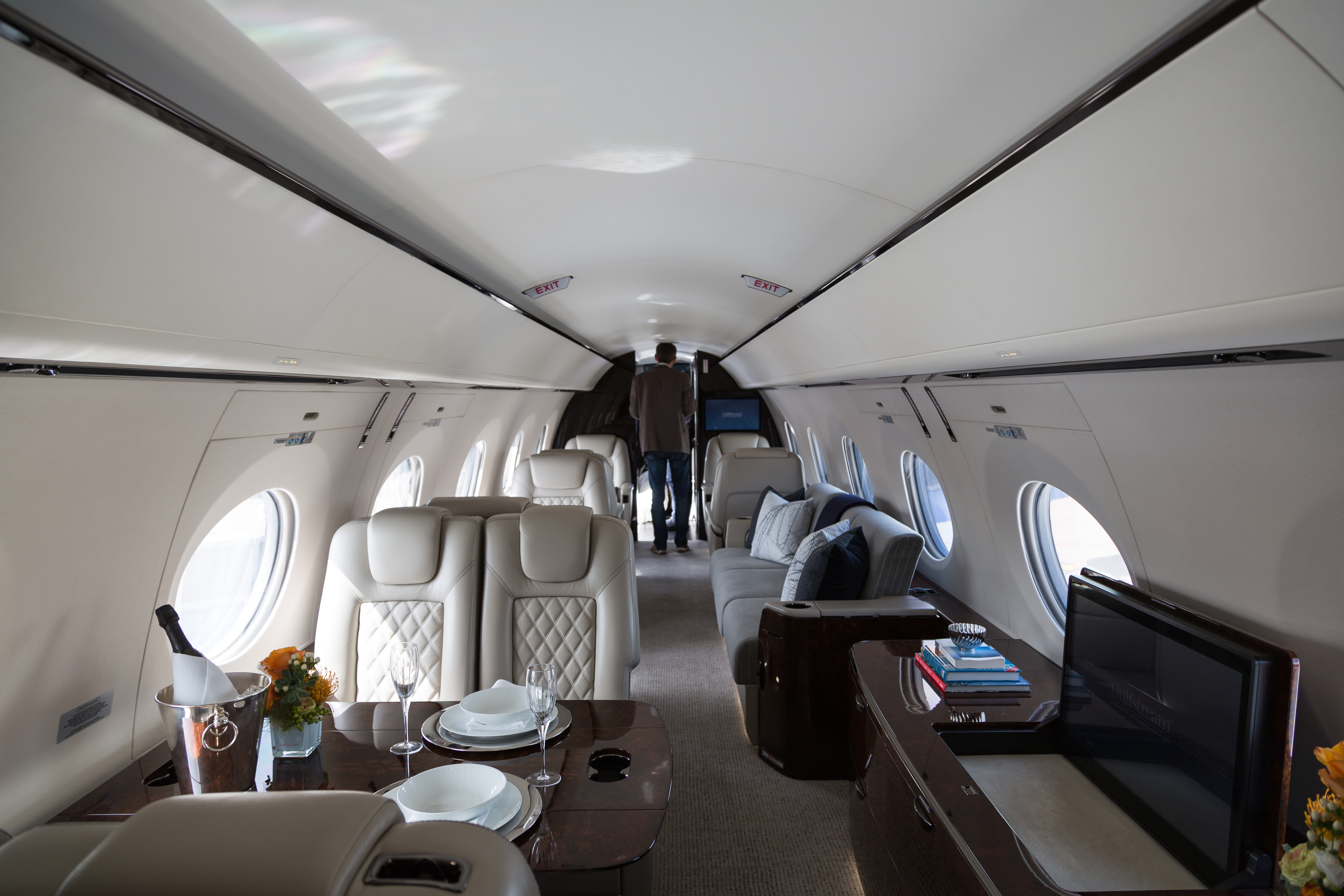 Gulfstream G500, EBACE 2018